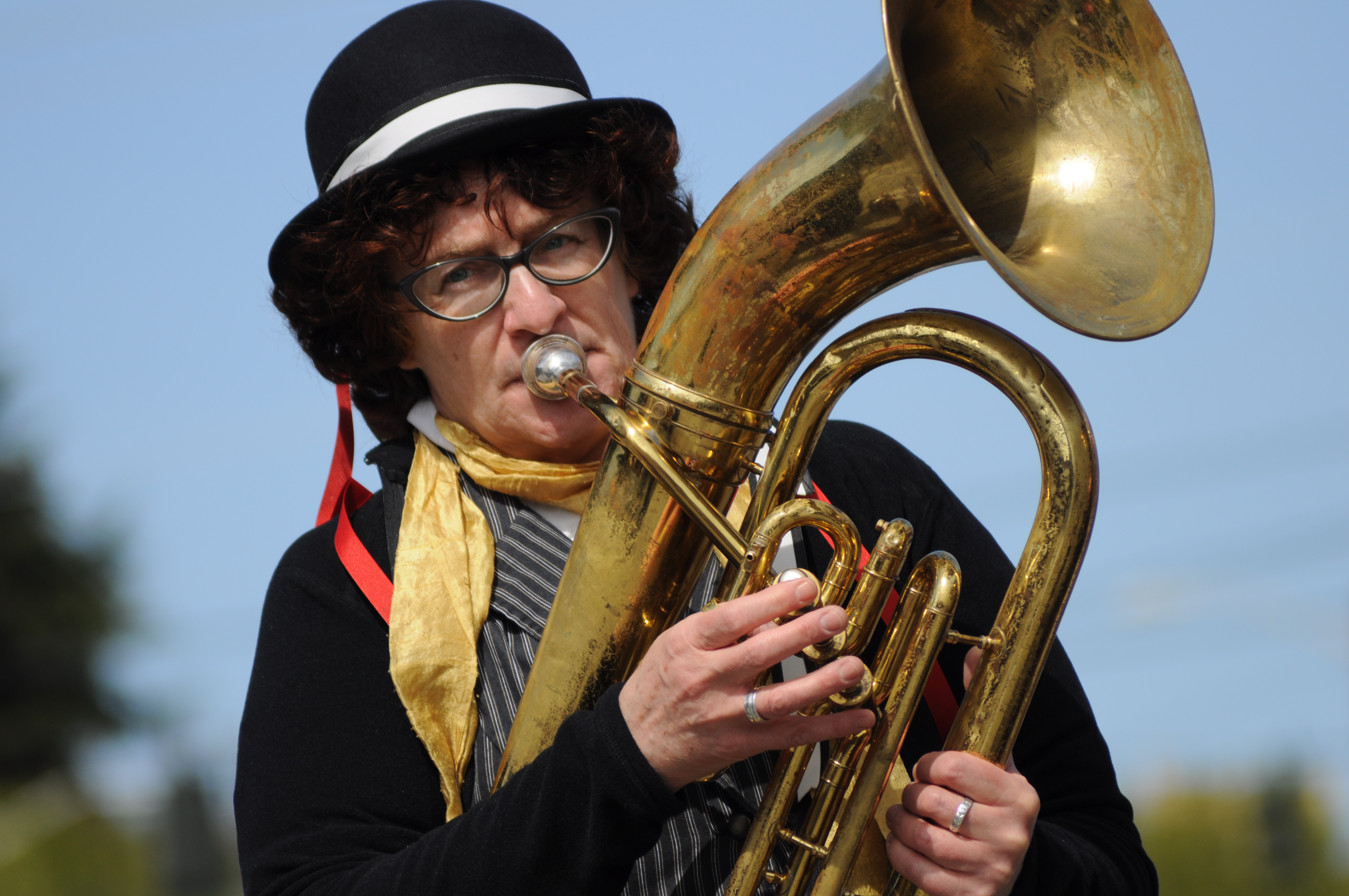 Woman in Orkestar Slivovica playing some sort of brass instrument (maybe some sort of marching baritone, but I'm not sure because it has a curved bell), Honk Fest West, West Seattle, Seattle, Washington. Rwberndt says it is an American baritone, probably mid-[20th]-century, maybe a Conn (Conn-Selmer). The bell is positioned like a European tenor horn or Continental baritone, but it is adjustable and would normally be in a bell-front orientation. (A straight bell could also be swapped on a Conn Constellation to become an American Euphonium.)